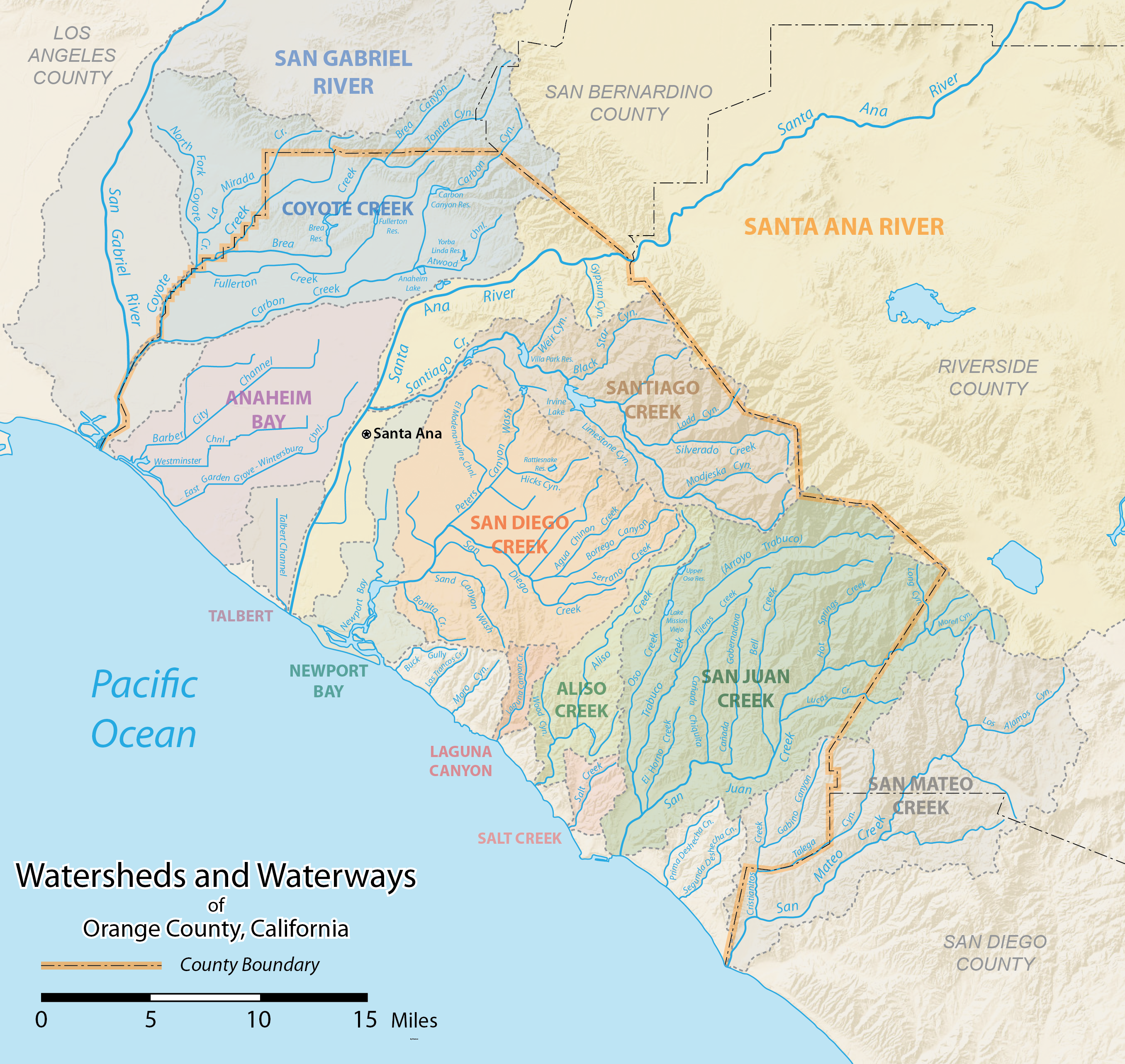 Map of Orange County, California showing the major watersheds, rivers and streams. Made using data from the USGS and the County of Orange.